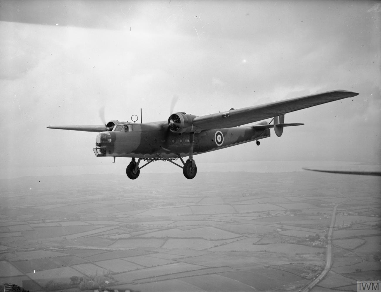 Aircraft of the Royal Air Force, 1939-1945- Bristol Type 130 Bombay. Bombay Mark I, L5838, on a test flight from Aldergrove, County Antrim, before joining No. 216 Squadron in the Middle East